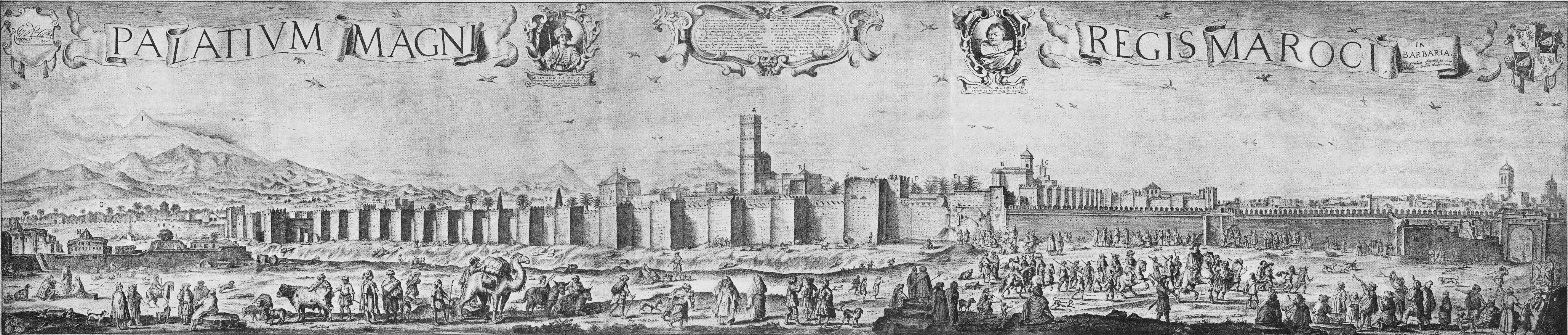 El Badi Palace by Adriaen_Matham 1640.